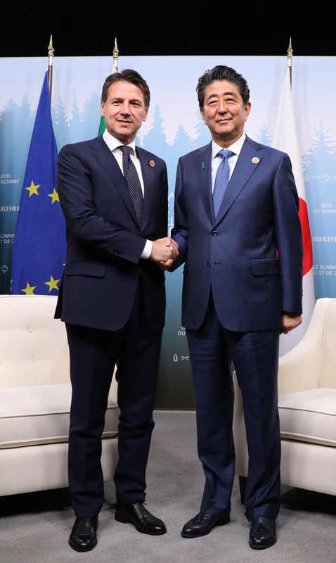 Prime Minister of Japan Shinzō Abe and Prime Minister of Italy Giuseppe Conte at the 44th G7 summit.